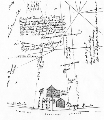 Survey of the homestead of Phillip Wheeler in Rehoboth, Massachusetts (listed as the Ingalls-Wheeler-Horton Homestead Site).